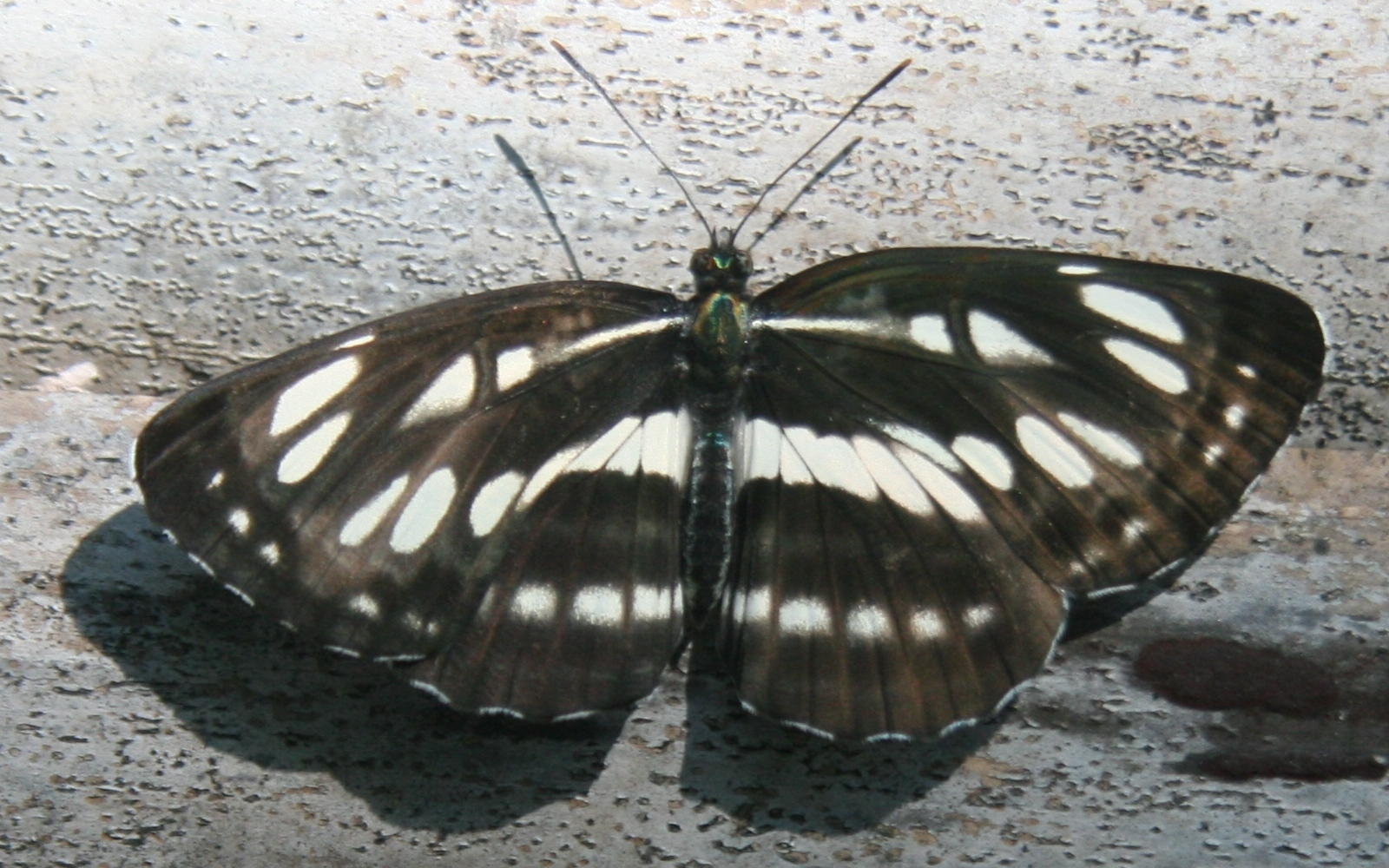 Neptis sappho fr in Komaki Shiminshikinomori. Ssp intermedia Charles (talk) 11:07, 2 September 2019 (UTC)